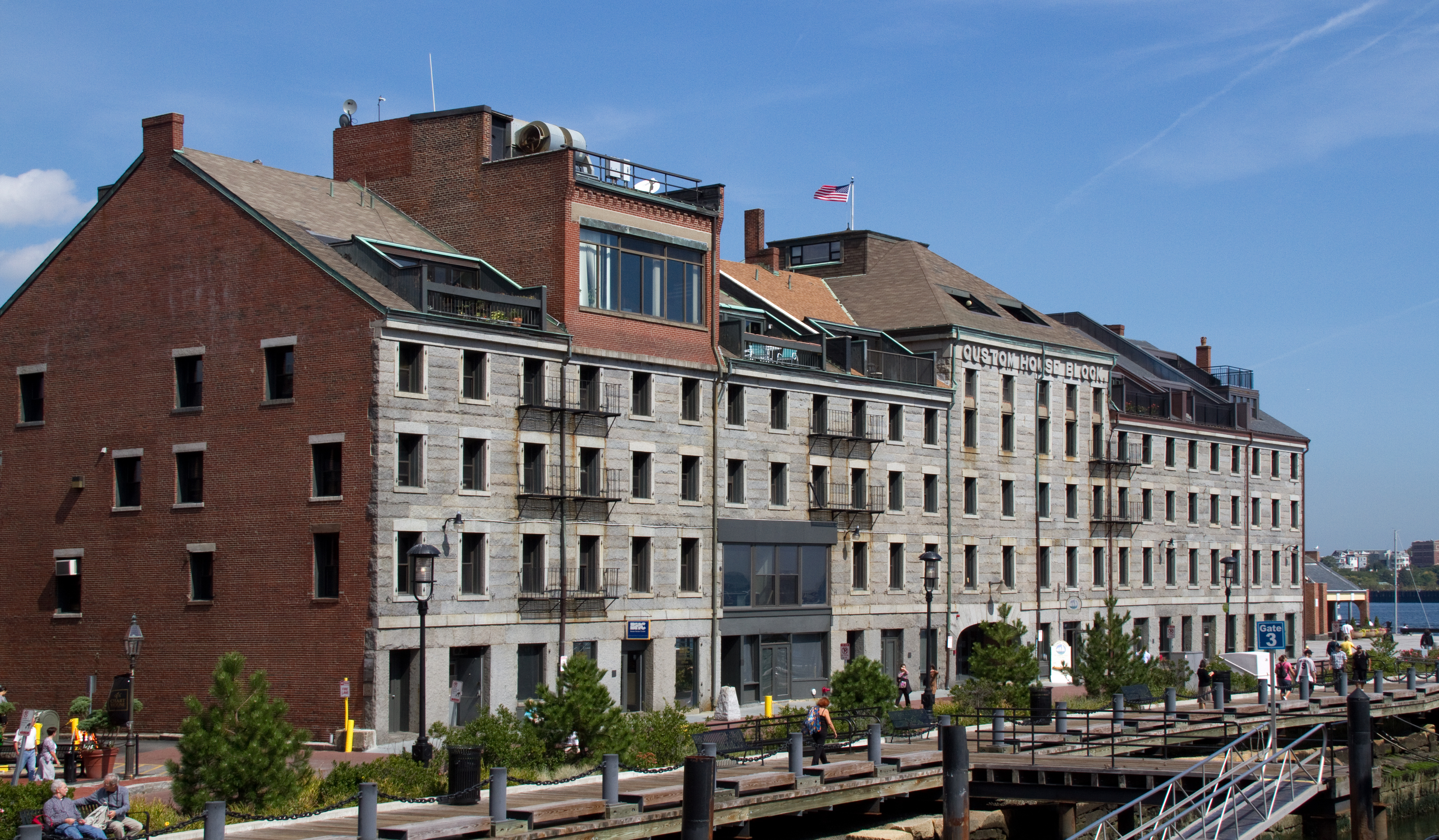 Custom House Block, Boston